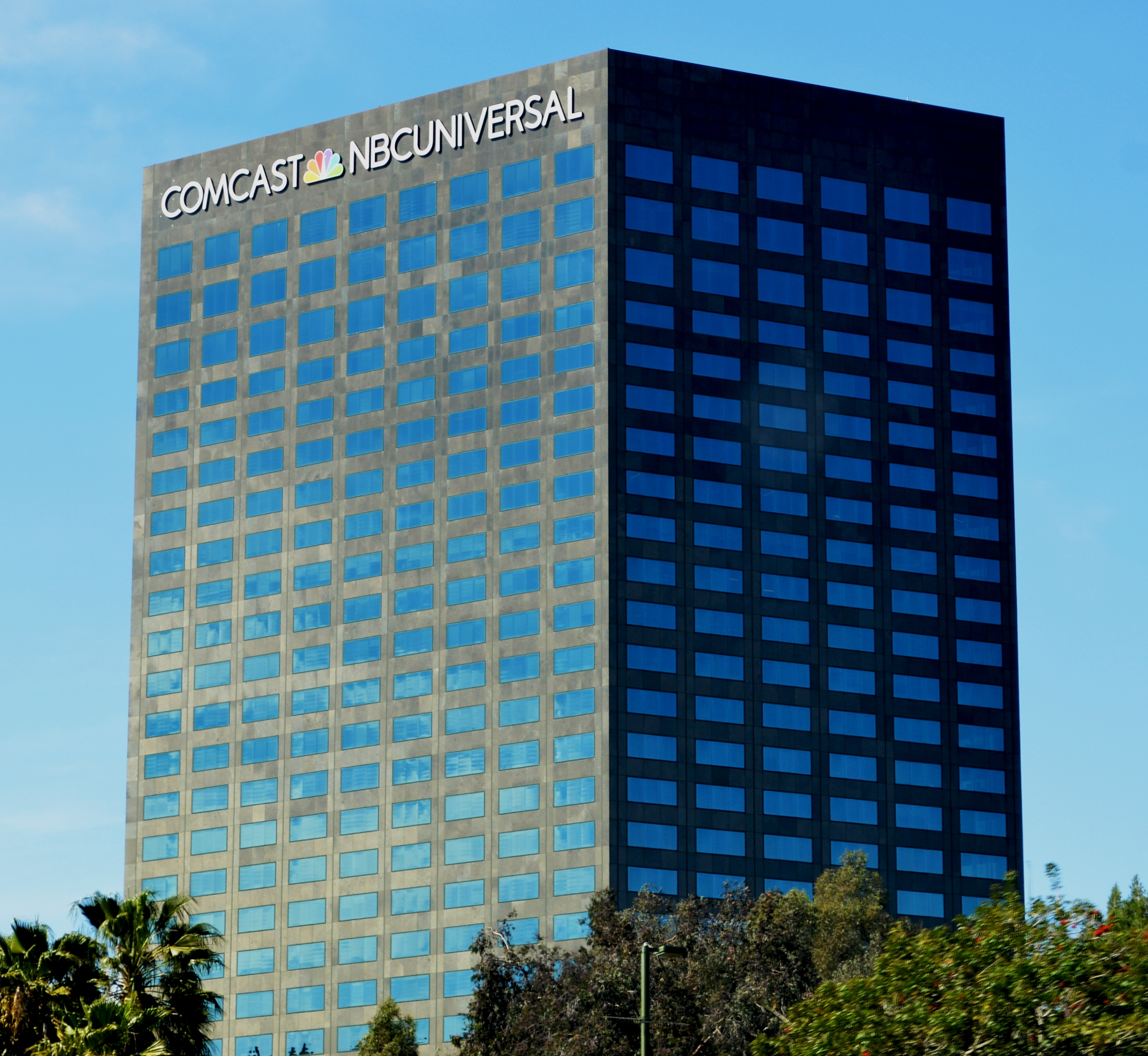 10 Universal City Plaza, which is now labeled COMCAST NBCUNIVERSAL instead of just NBCUNIVERSAL - Photographed in March 2014 from the Hollywood Freeway portion of U.S. Route 101 in California.